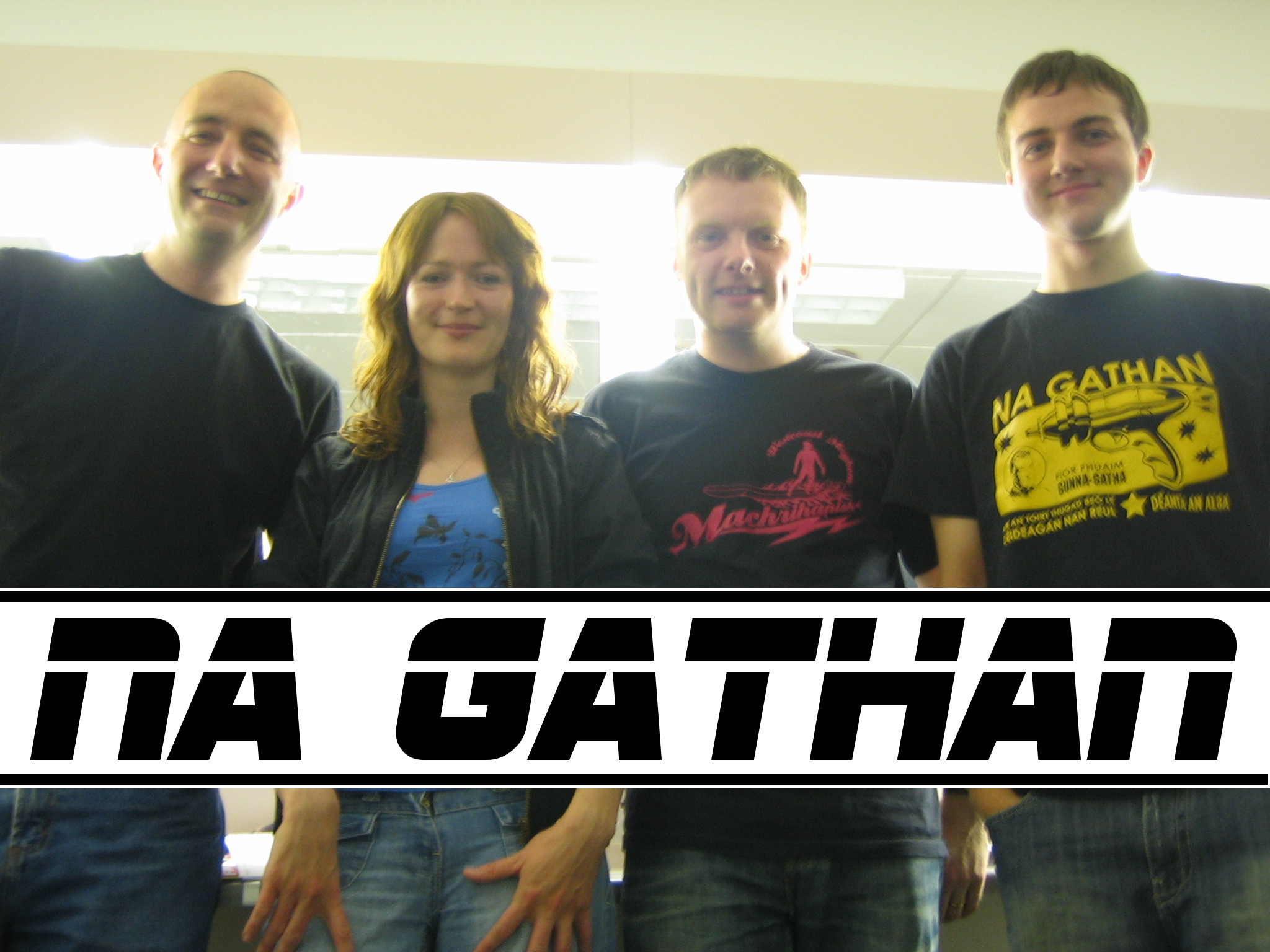 Na Gathan